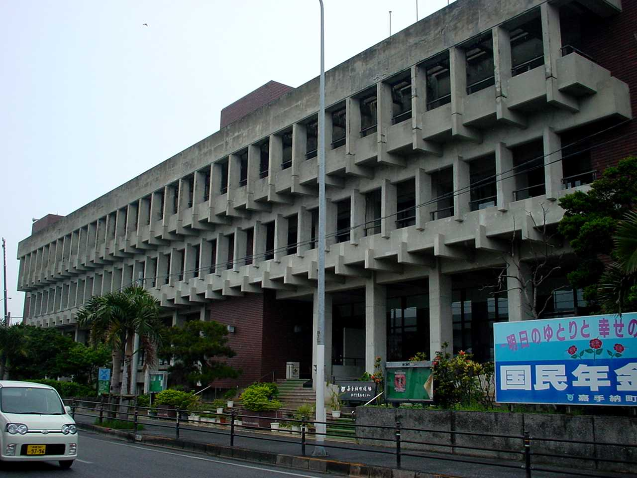 Kadena Town Office in Okinawa, Japan